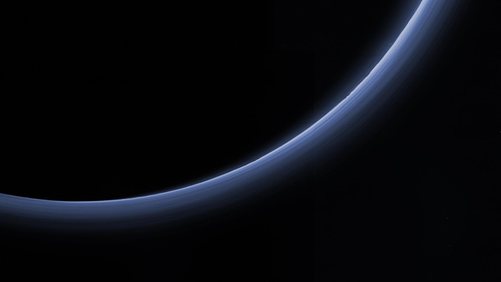 PIA20362: Pluto's Haze in Bands of Blue This processed image is the highest-resolution color look yet at the haze layers in Pluto's atmosphere. Shown in approximate true color, the picture was constructed from a mosaic of four panchromatic images from the Long Range Reconnaissance Imager (LORRI) splashed with Ralph/Multispectral Visible Imaging Camera (MVIC) four-color filter data, all acquired by NASA's New Horizons spacecraft on July 14, 2015. The resolution is 1 kilometer (0.6 miles) per pixel; the sun illuminates the scene from the right. Scientists believe the haze is a photochemical smog resulting from the action of sunlight on methane and other molecules in Pluto's atmosphere, producing a complex mixture of hydrocarbons such as acetylene and ethylene. These hydrocarbons accumulate into small particles, a fraction of a micrometer in size, and scatter sunlight to make the bright blue haze seen in this image. As they settle down through the atmosphere, the haze particles form numerous intricate, horizontal layers, some extending for hundreds of miles around Pluto. The haze layers extend to altitudes of over 200 kilometers (120 miles). Adding to the stark beauty of this image are mountains on Pluto's limb (on the right, near the 4 o'clock position), surface features just within the limb to the right, and crepuscular rays (dark finger-like shadows to the left) extending from Pluto's topographic features. The Johns Hopkins University Applied Physics Laboratory in Laurel, Maryland, designed, built, and operates the New Horizons spacecraft, and manages the mission for NASA's Science Mission Directorate. The Southwest Research Institute, based in San Antonio, leads the science team, payload operations and encounter science planning. New Horizons is part of the New Frontiers Program managed by NASA's Marshall Space Flight Center in Huntsville, Alabama.